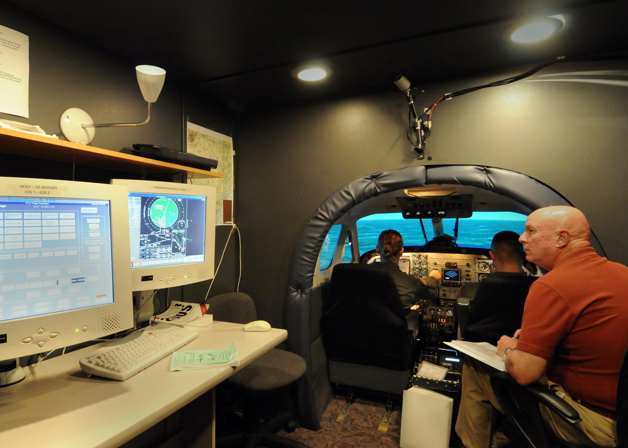 CORPUS CHRISTI, Texas (Nov. 3, 2008) Ensign Ruth Roberson, left, and Air Force 2nd Lt. Denny Paulson, both from Training Squadron (VT 35), take flight in the TC12B Visual Simulator during ground training exercises at Naval Air Station Corpus Christi to earn their Wings of Gold. Simulator instructor Mr. Alex Torrance, right, also simulates aircraft to tower communications during the entire session. (U.S. Navy photo by Richard Stewart/Released)